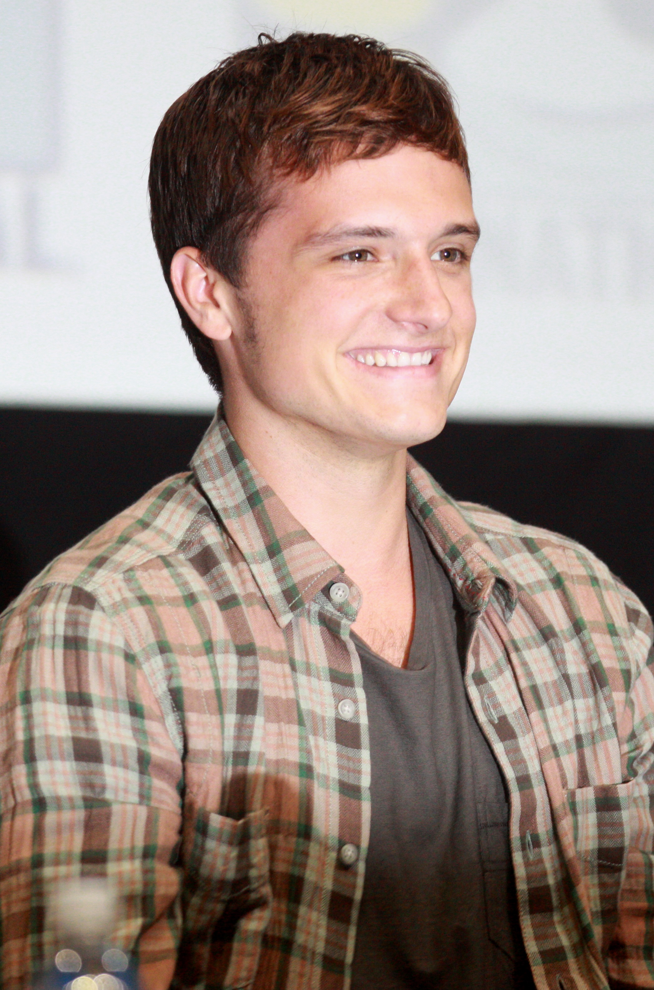 Josh Hutcherson speaking at the 2013 San Diego Comic Con International, for "The Hunger Games: Catching Fire", at the San Diego Convention Center in San Diego, California.